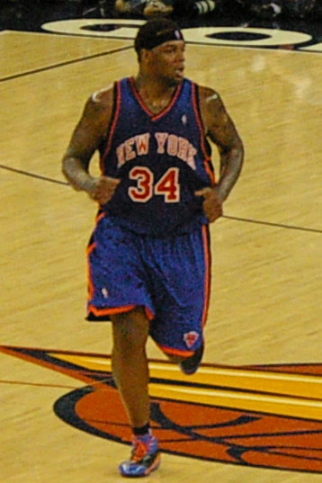 Eddy Curry running This file has been extracted from another file: Warriors Knicks.jpg